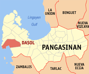 Map of Pangasinan showing the location of Dasol